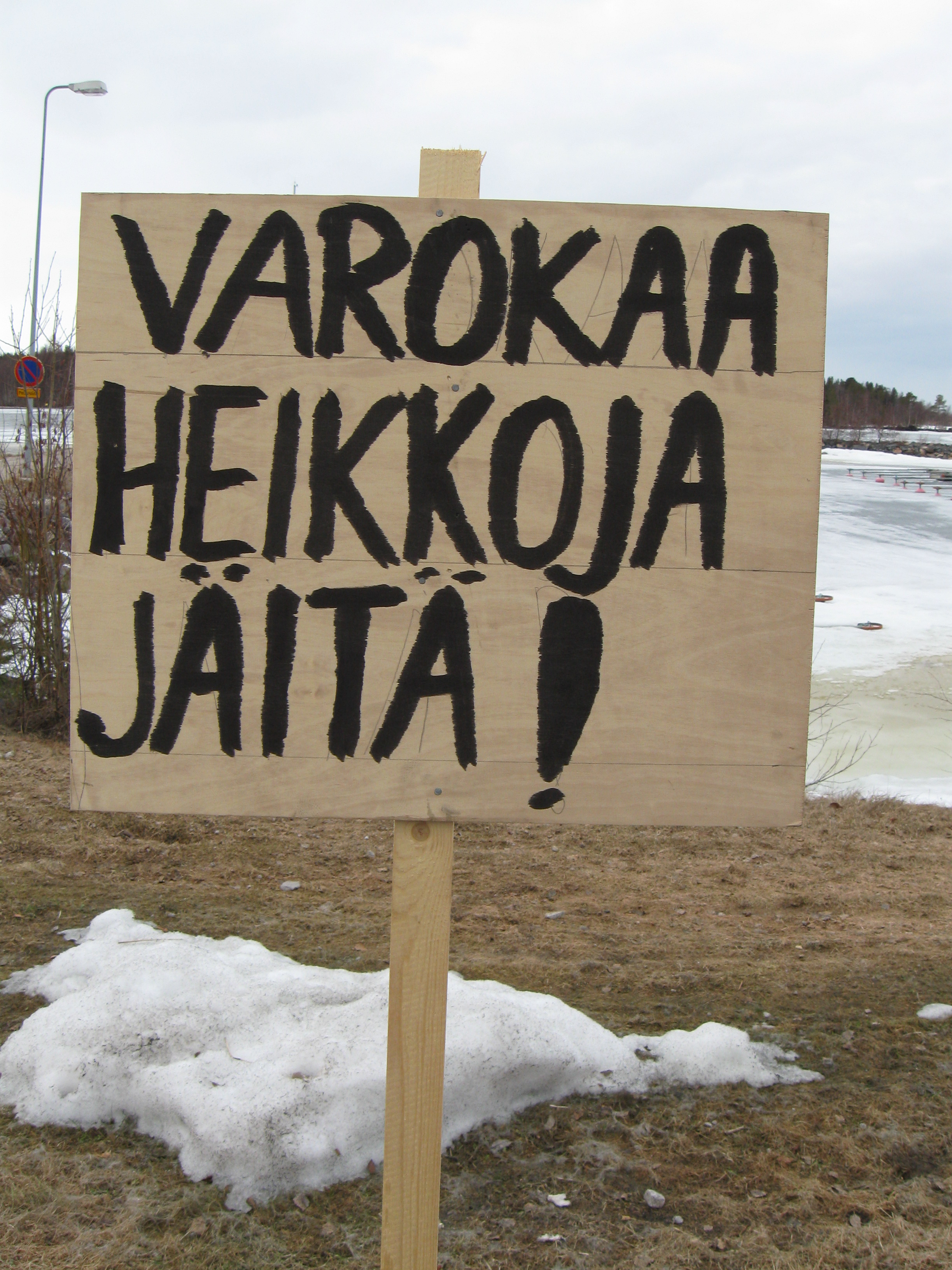 A self-made warning sign for thin ice at the Varjakka harbour in Oulunsalo, Finland.